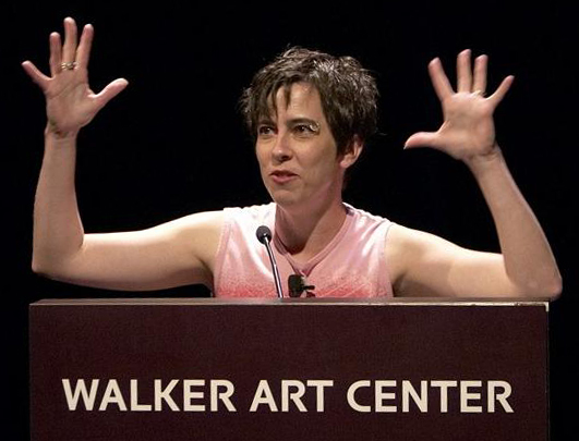 Anne Elizabeth Moore at the Walker Art Center